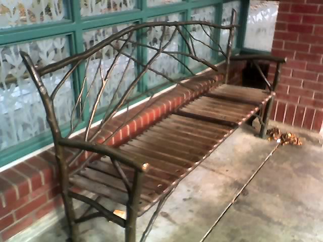 Taken at Orenco Station in Hillsboro 01NOV2006 by Brendan K Callahan aka Callcentermonkey 11:27, 2 November 2006 (UTC)